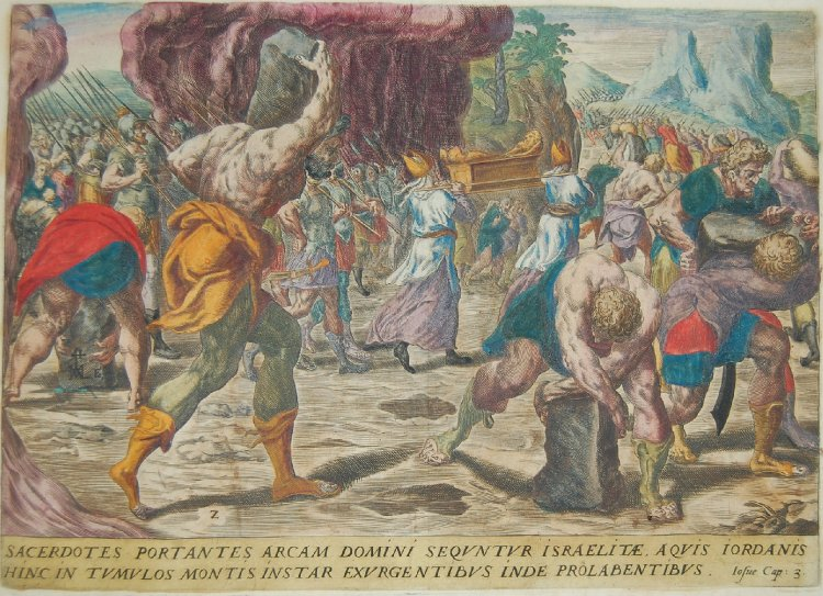 Israelites Crossing the Jordan River while carrying the Ark of the Covenant on Yom HaAliyah, 10th of Nisan.